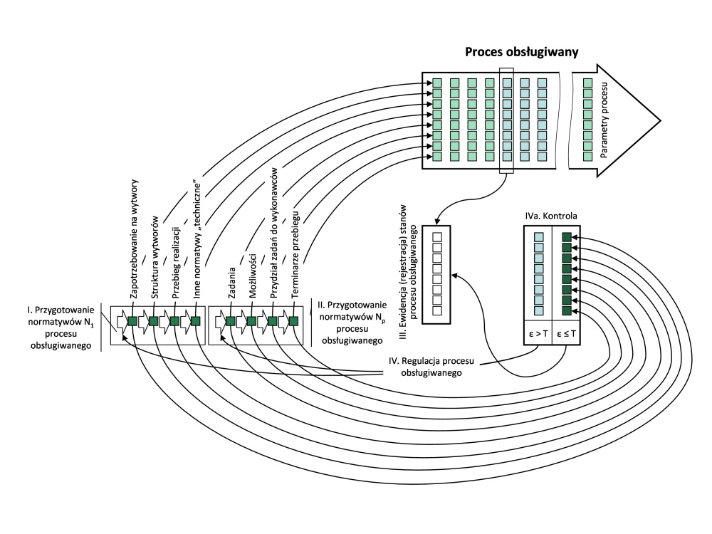 Figure 3. The relationship between phases of the Information Process and serviced process